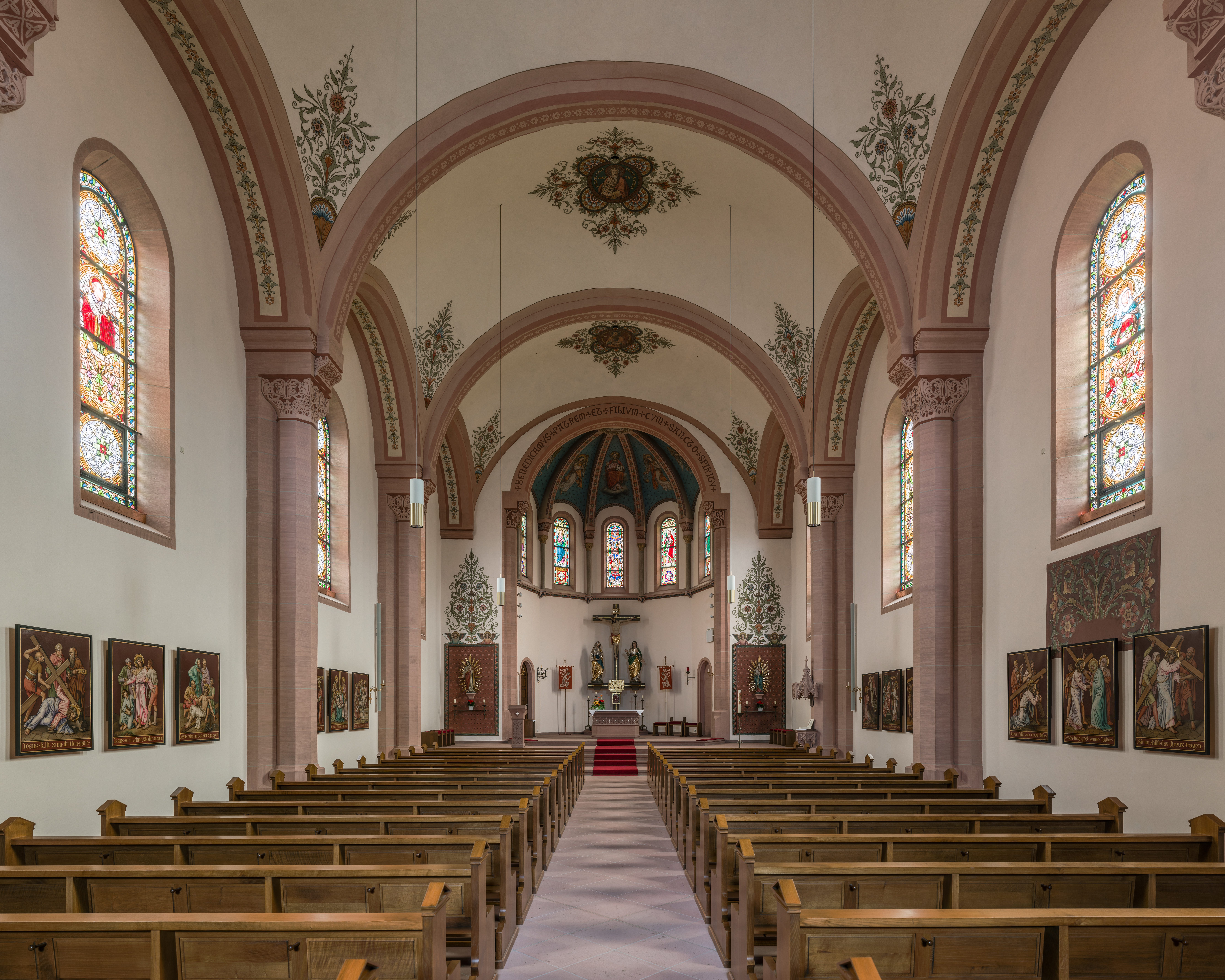 A view of the nave of St. Venantius, Wertheim